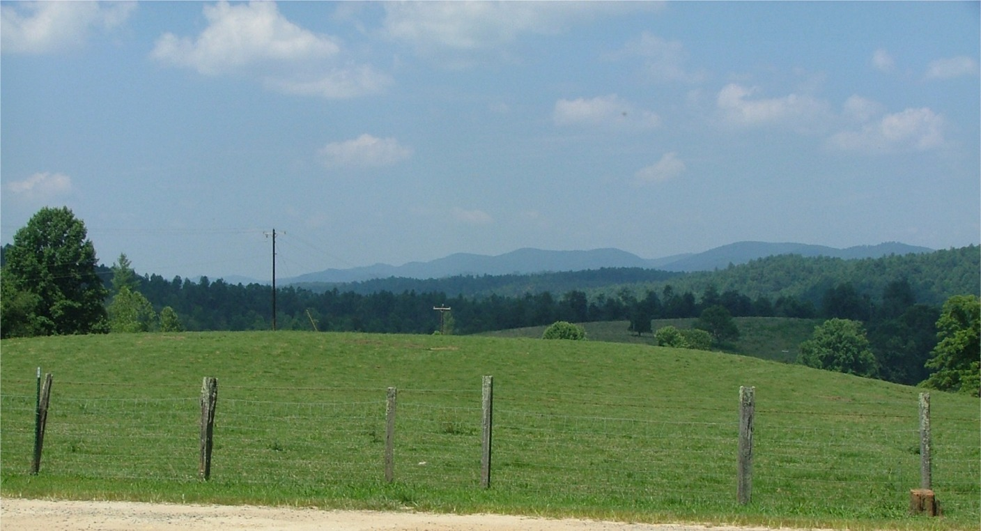 Yadkin River Valley in Wilkes County, North Carolina